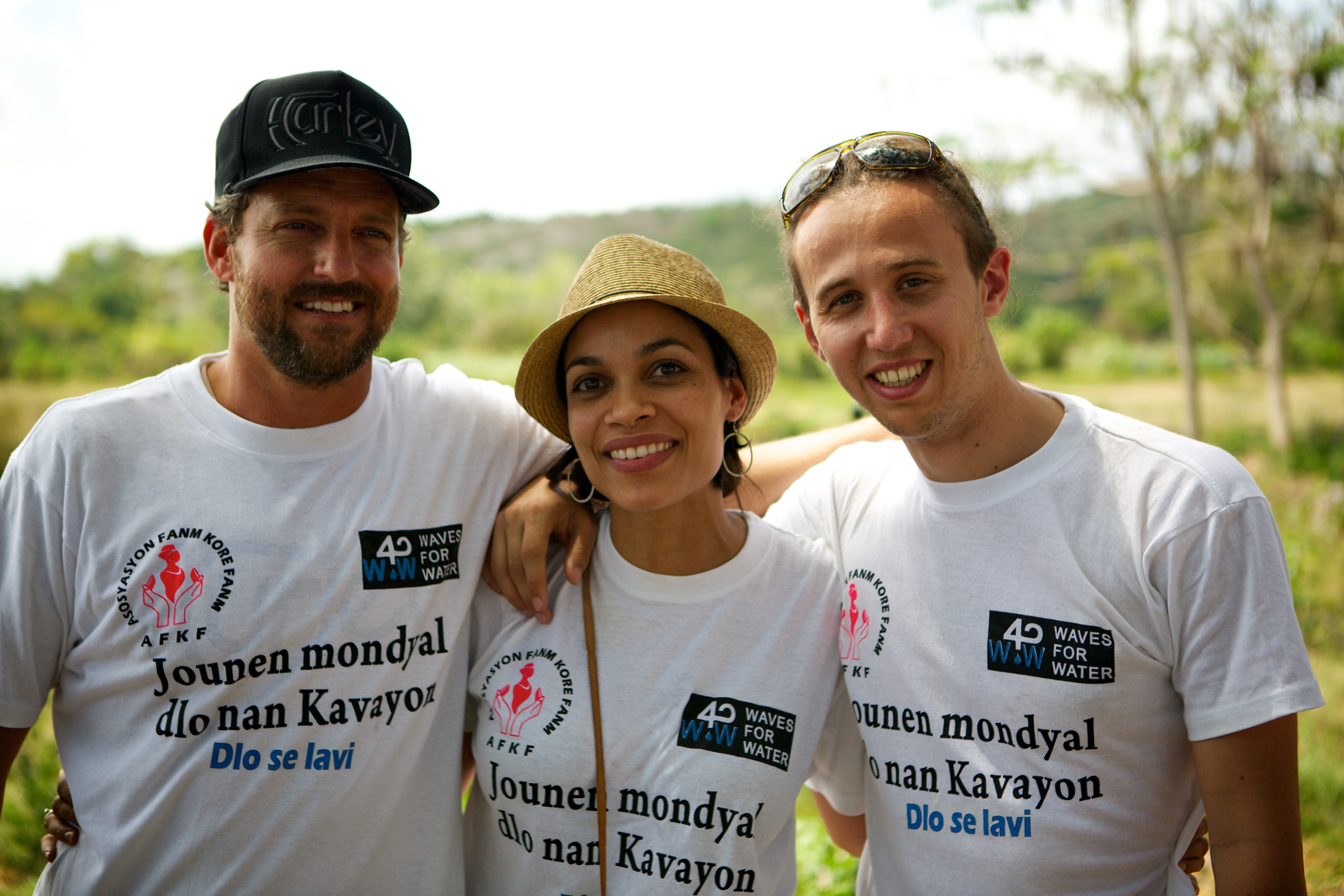 Jon Rose, Actress Rosario Dawson and director Maximilian Haidbauer in Haiti on World Water Day 2014 doing a clean water project.